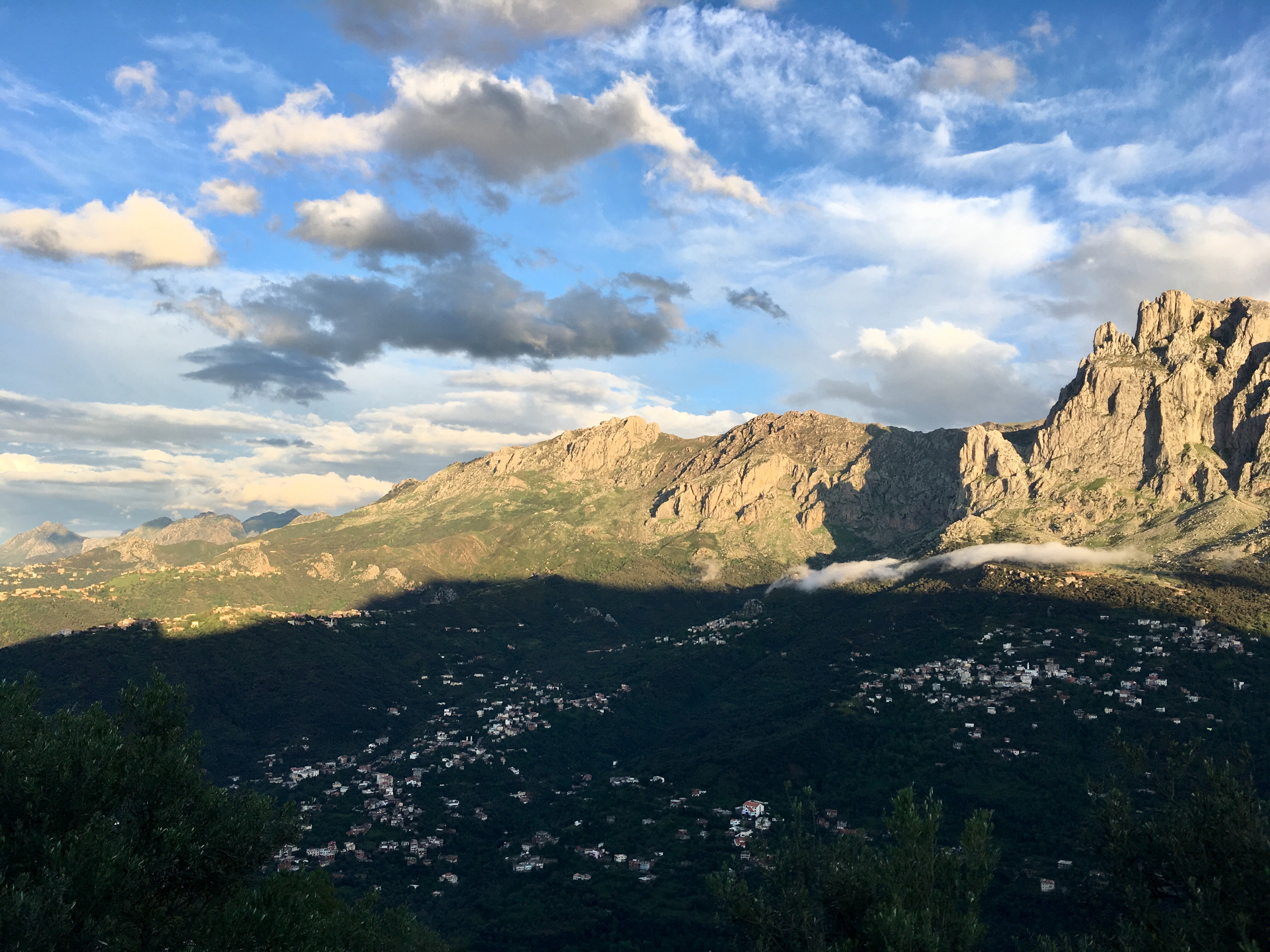 My wonderful motherland ( agouni fourou algeria)